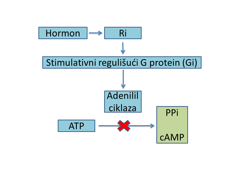 A sketch to describe the effect of Ri and Gi in cAMP signal pathway. The labels are given in Serbian language